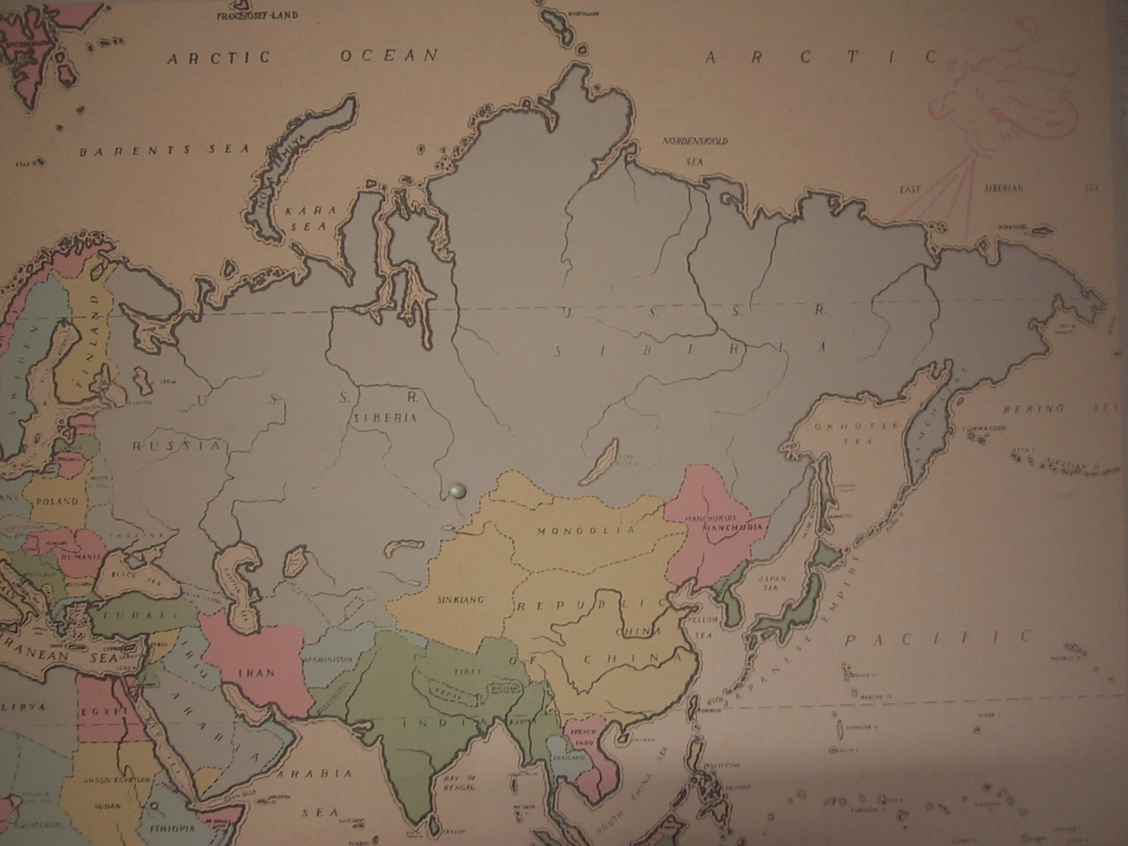 This is the Asian portion of an old map of the world (a Mercator projection on a plywood backing) that my old roommate's mother used when she was a schoolteacher. Judging by its inclusion of Manchukuo, and the Transcaucasian Republic in the USSR, this seems to have been made somewhere from 1932 to 1936. Note its inclusion of Tannu Tuva northwest of Mongolia (though it's inaccurately drawn--it's backwards!). The tack may have been intended to mark the location of Novosibirsk.